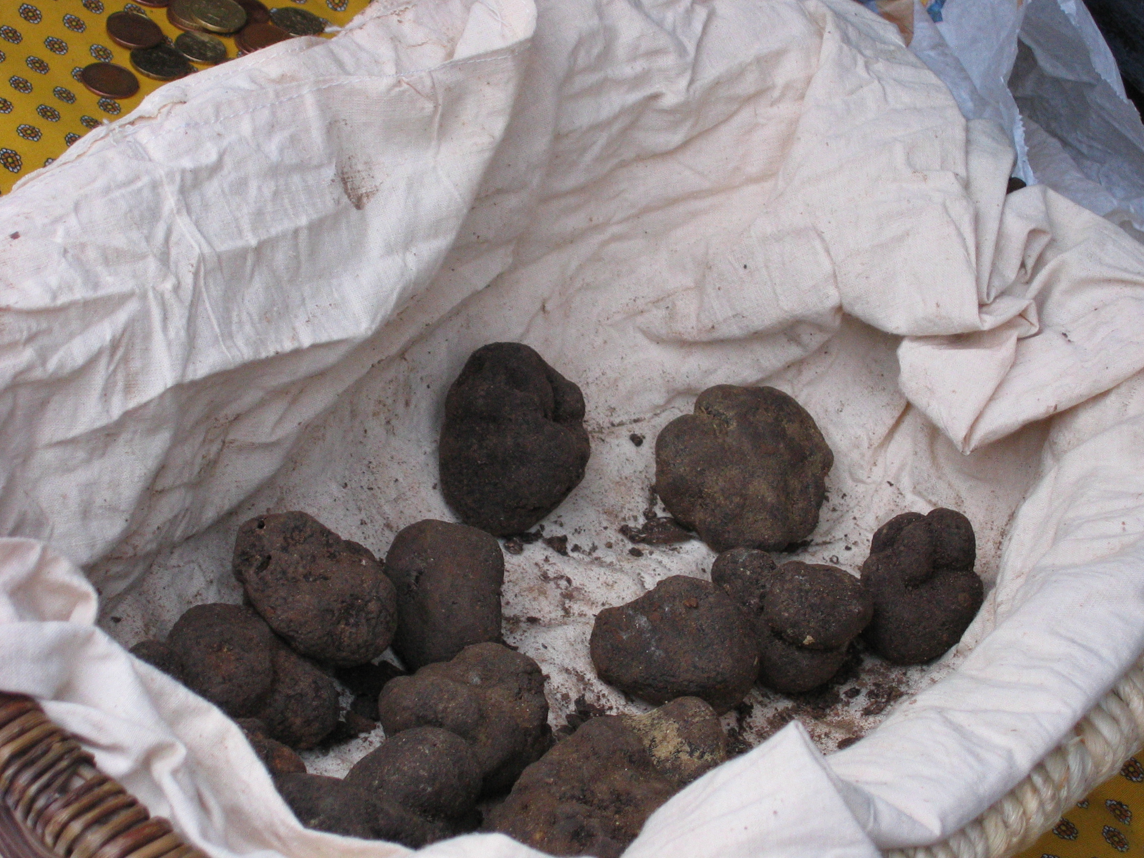 Photo taken by Poppy in January 2006. Truffle from Mont-Ventoux.